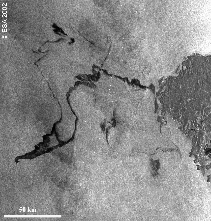 Envisat's ASAR image acquired 17 November 2002 shows a double-headed oil spill originating from the stricken Prestige tanker, lying 100 km off the Spanish coast.